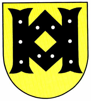 Coat of Arms of Kirchseelte